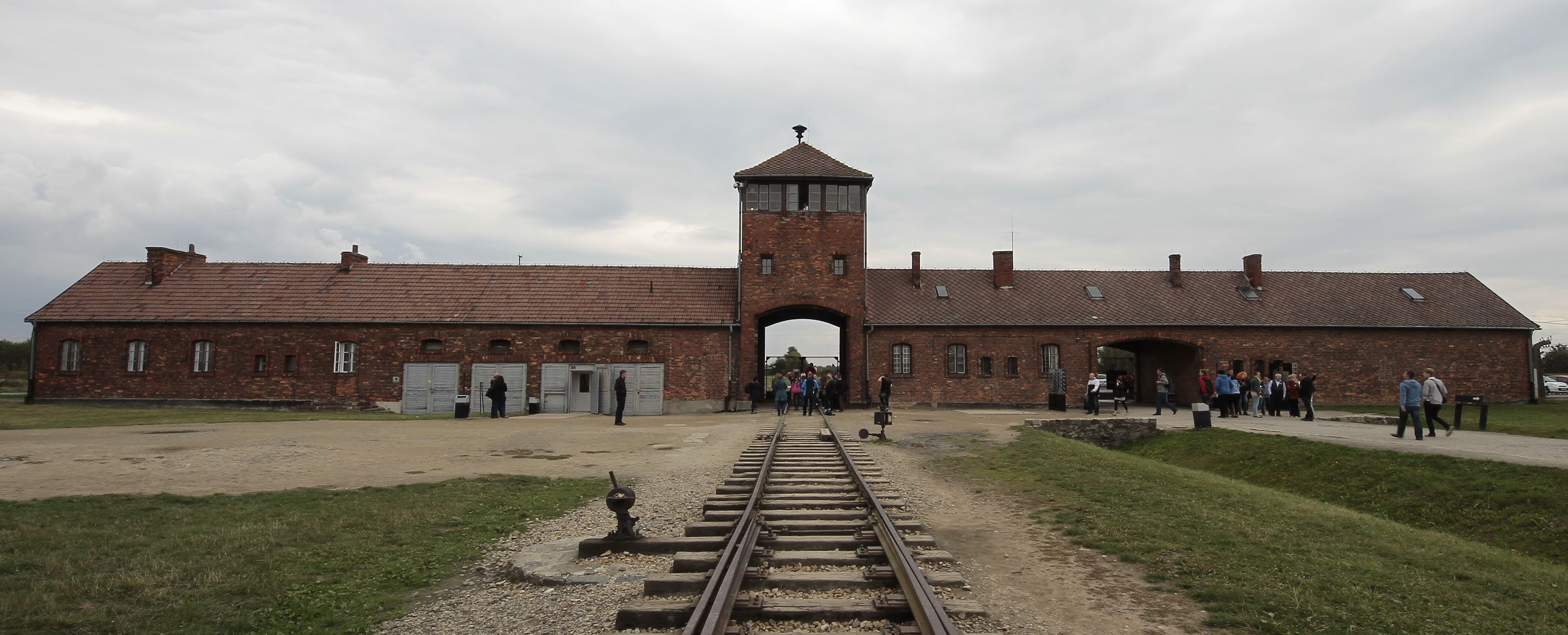 Auschwitz II-Birkenau (main gate)